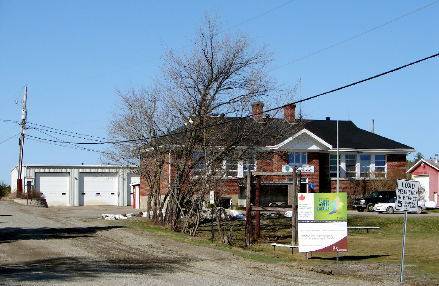 Municipal office of Hudson Township, Ontario, Canada